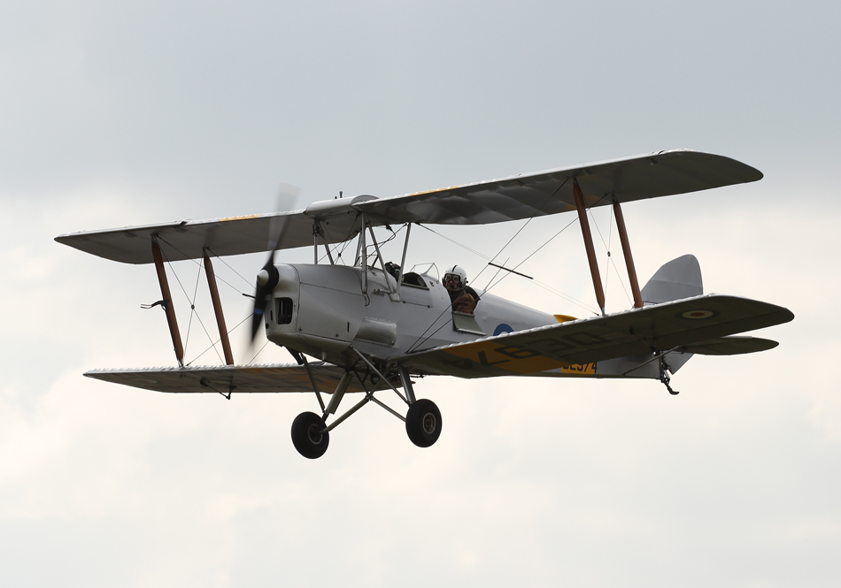 DE974 G-ANZZ De Havilland DH.82 Tiger Moth